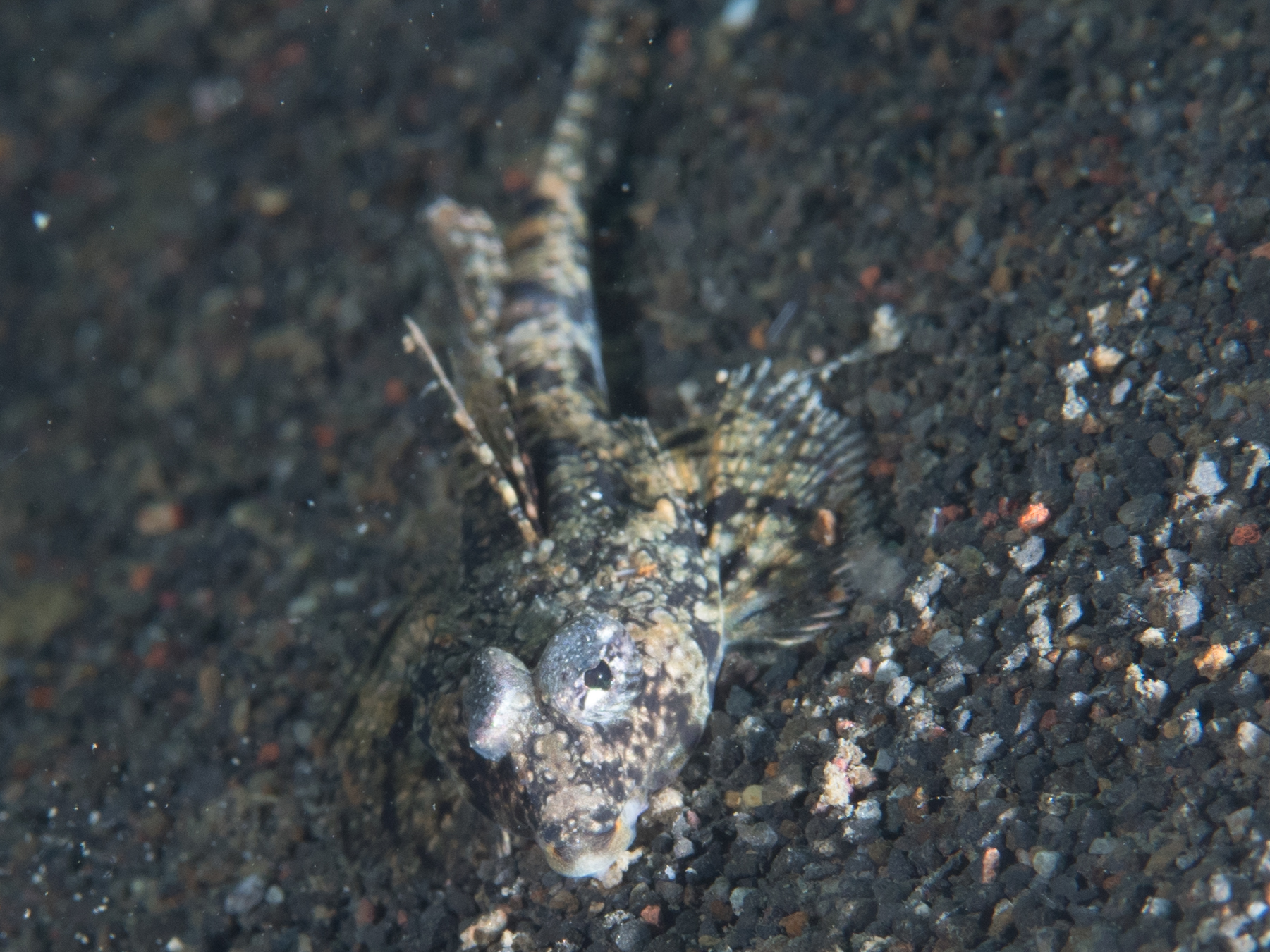 Lembeh, Indonesia - Proud dragonet (Callionymus superbus)